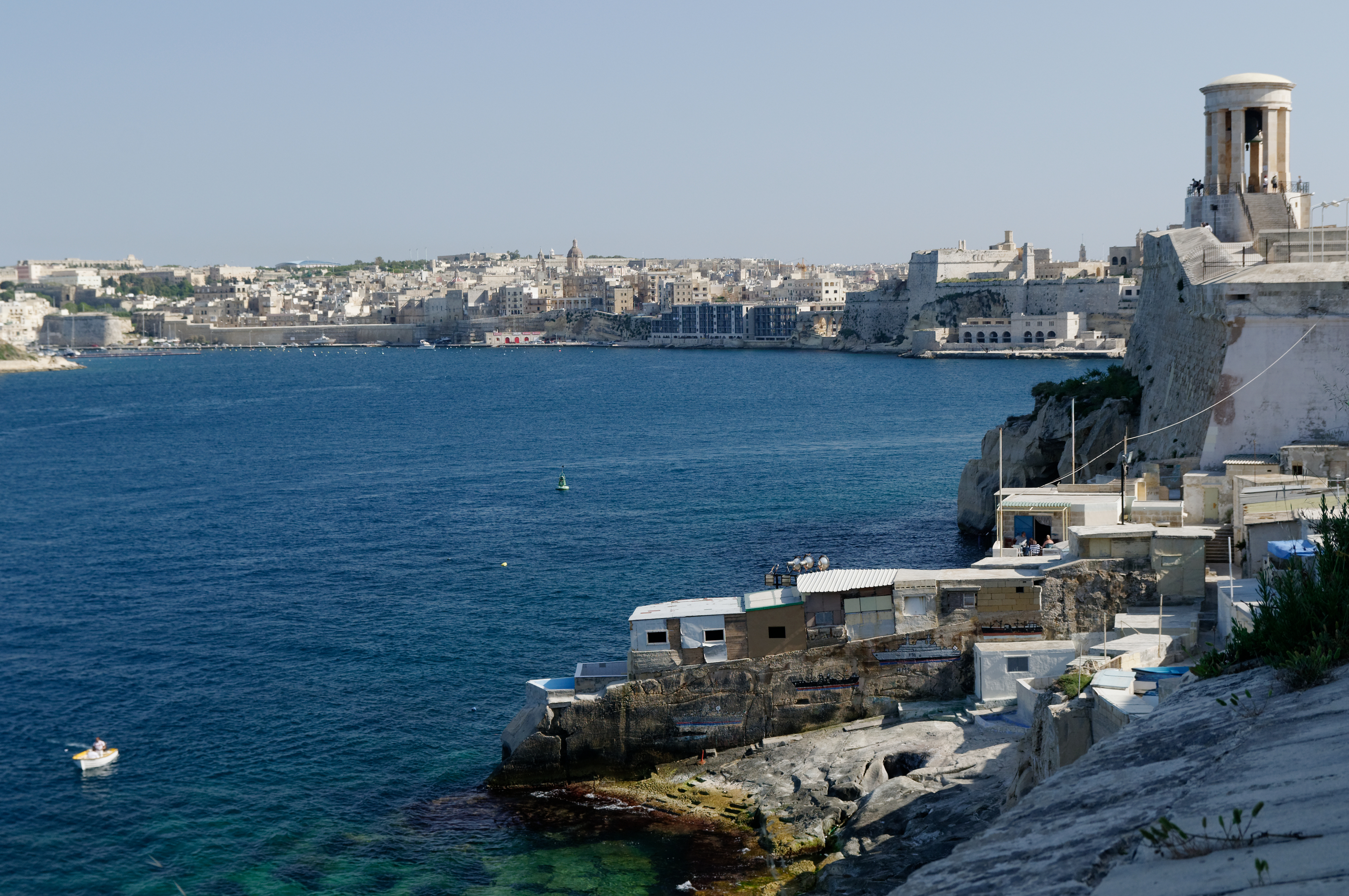 Grand Harbour and the Bell Monument seen from Mediterranean Street in Valletta, Malta.